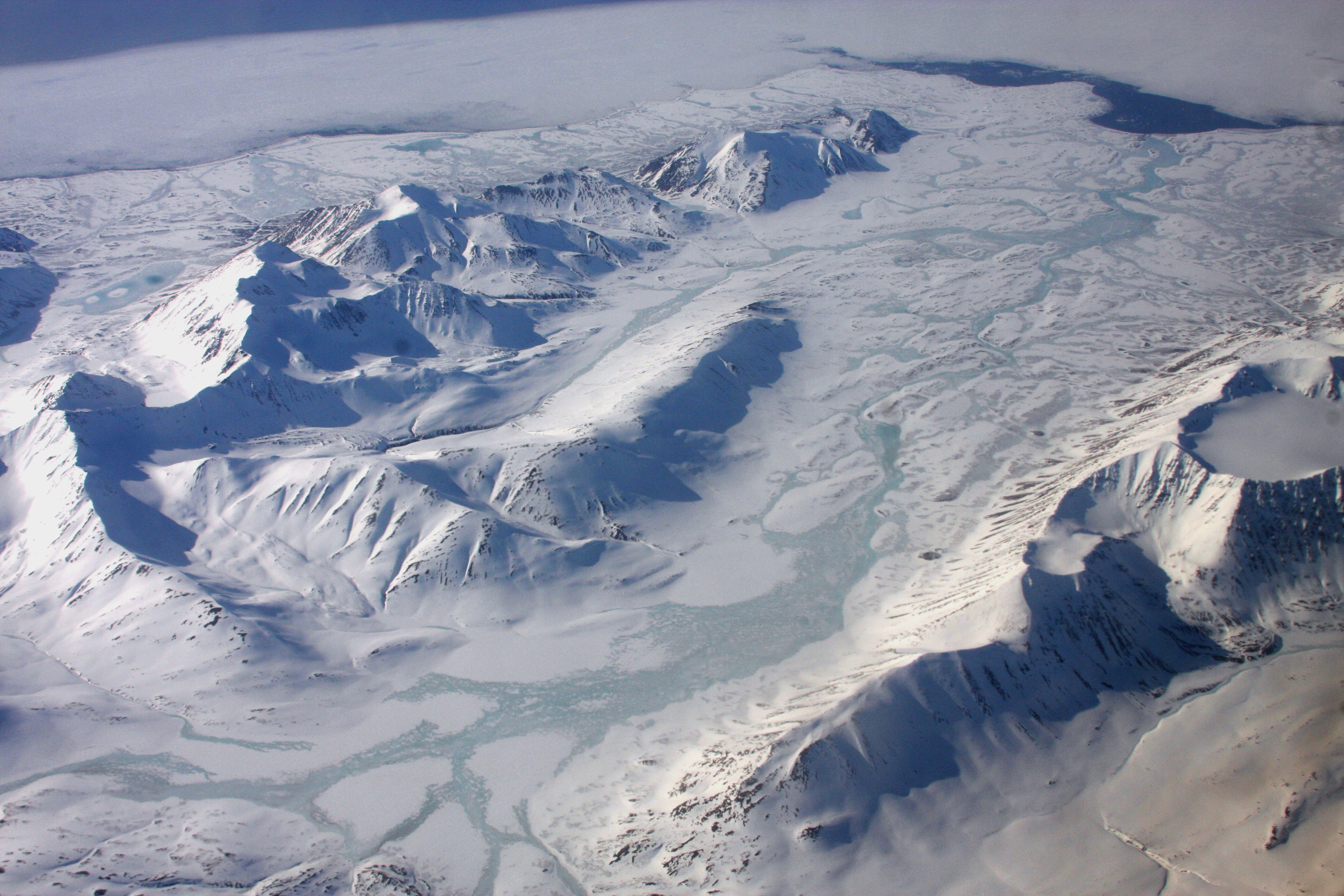 Northwestern Wedel Jarlsberg Land, Svalbard